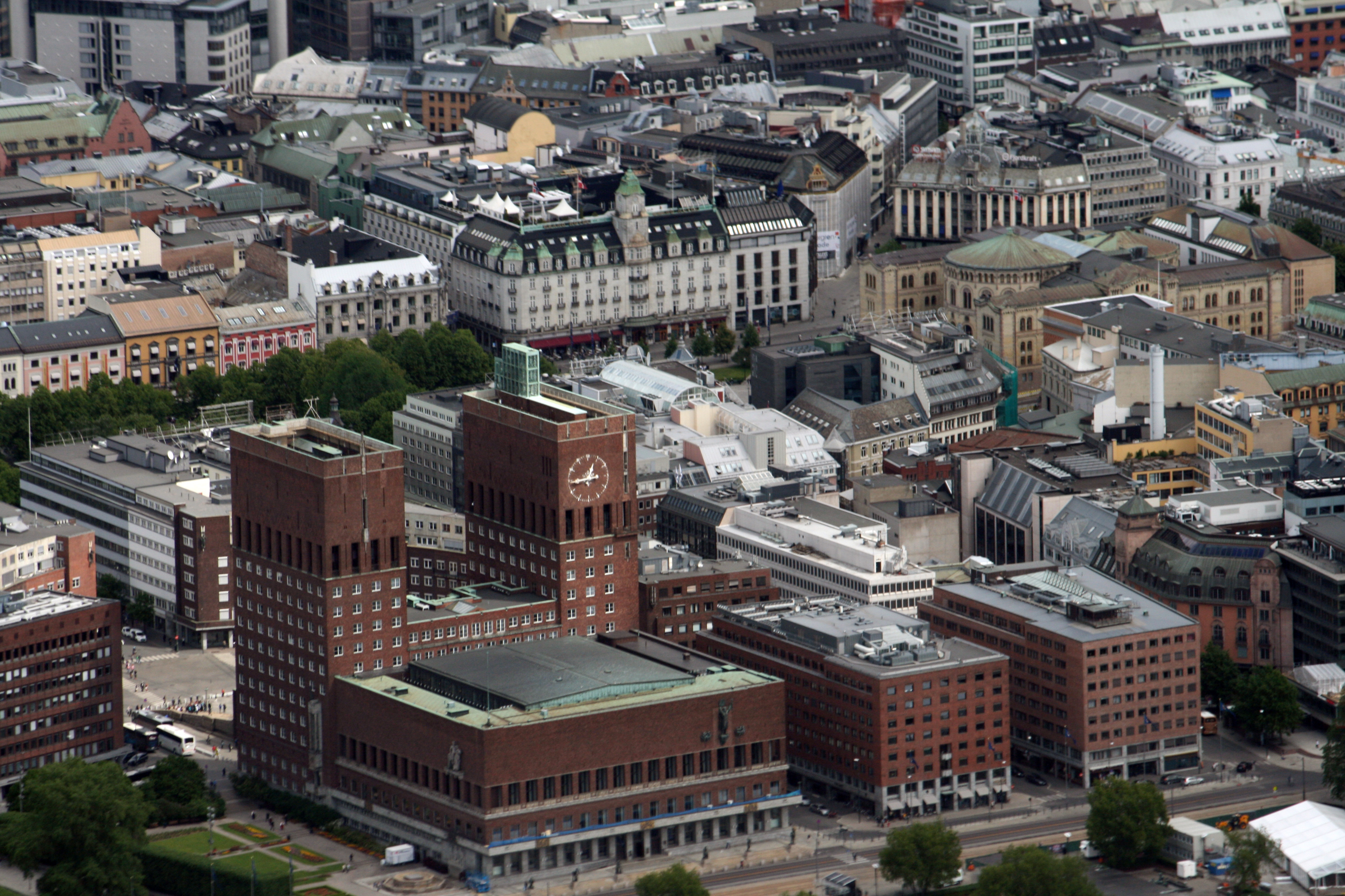 Aerial photograph from June 14th, 2015. Downtown Oslo with the City Hall in front.